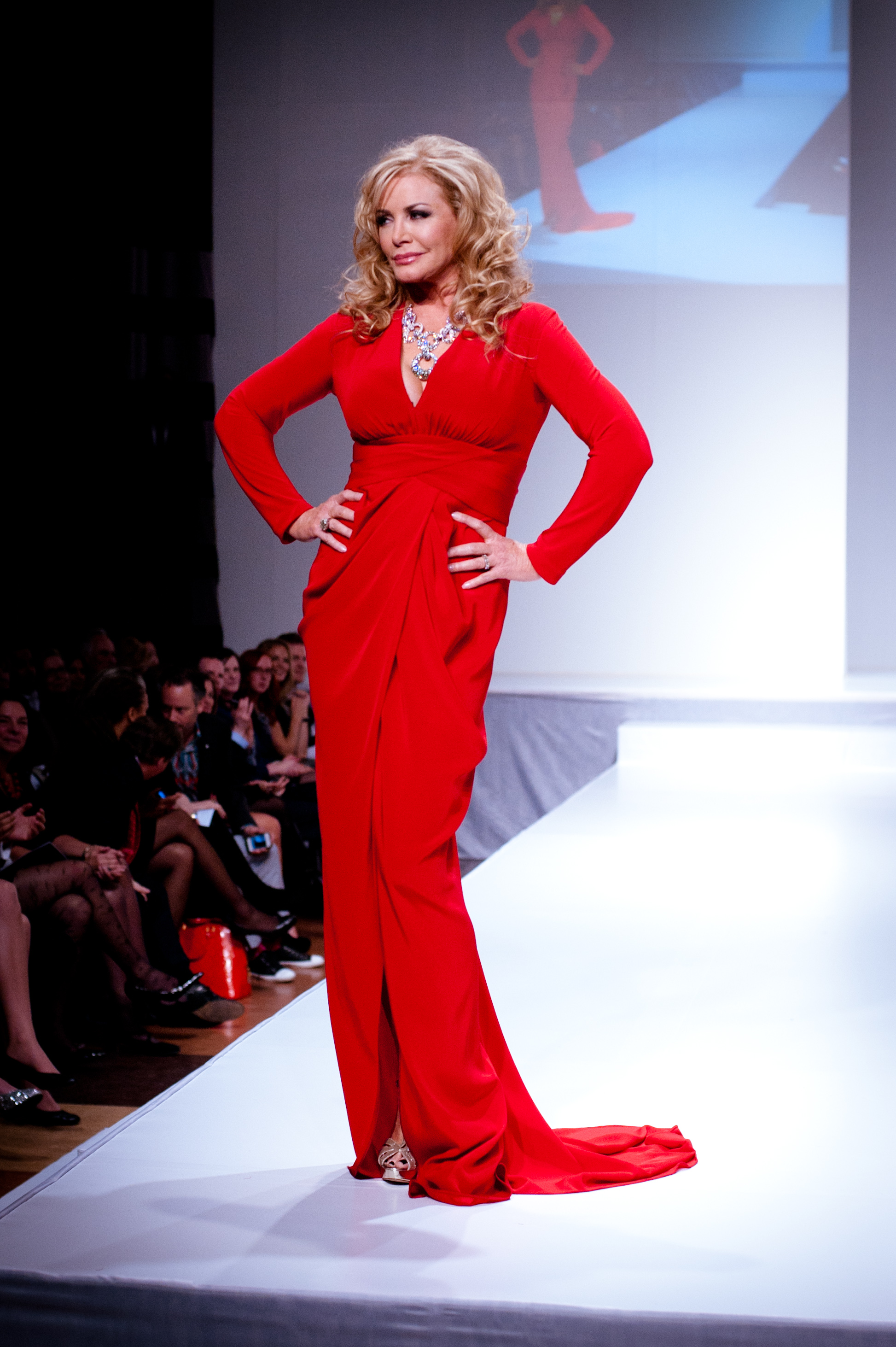 In 2012, The Heart Truth® marks a decade of commitment to women's heart health. Starting with February's American Heart Month and throughout the year, the National Heart, Lung, and Blood Institute (NHLBI) reaffirms its commitment to increasing awareness about heart disease among women and helping women take steps to reduce their own personal risk of developing heart disease. thehearttruth.ca thehearttruth + Photography by Jason Hargrove This set is available with a Creative Commons Attribution license for non-commercial use for media and bloggers alike. High resolution commercial use licenses can be purchased on request :)